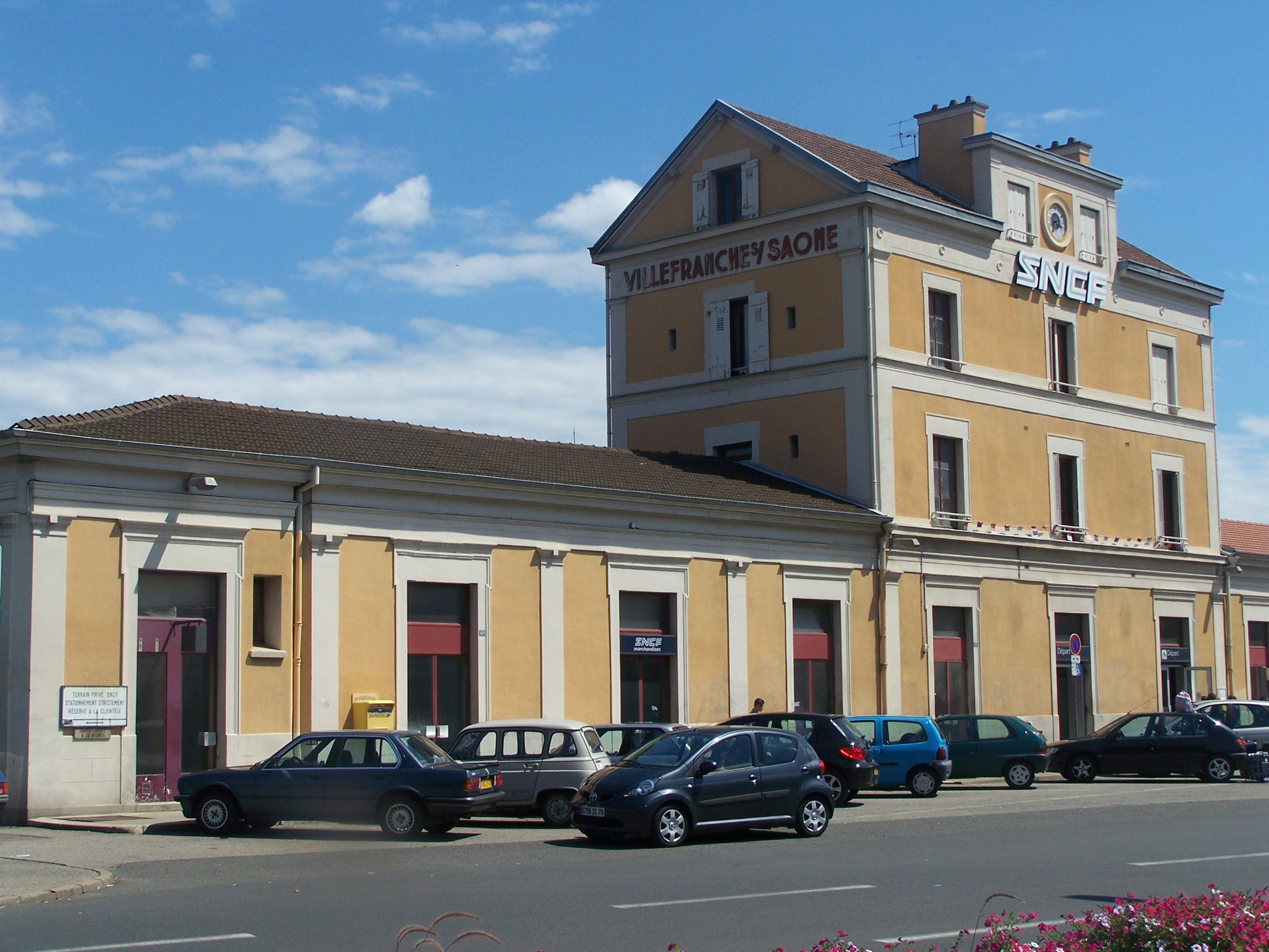 Front of the train station of the French commune of Villefranche sur Saône in the department of Rhône.